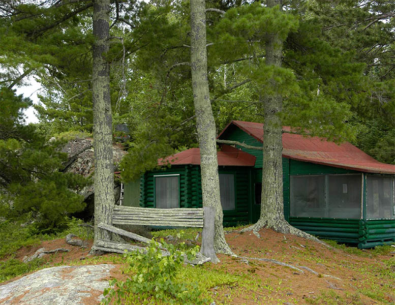 Jun Fujita Cabin, Wendt Island, Voyageurs National Park, Minnesota, USA. Viewed from the east.